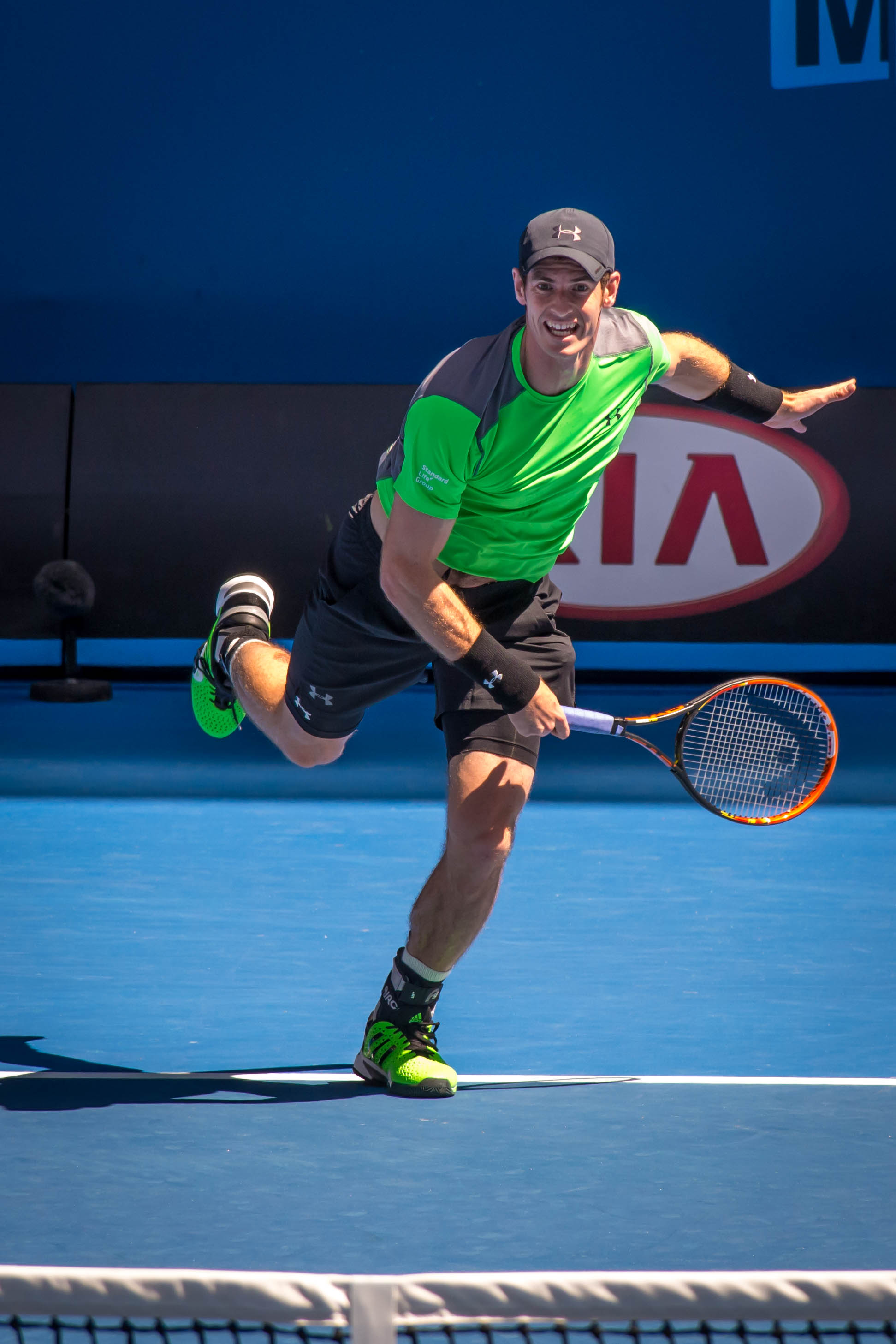 Andy Murray (GBR)[6] during his 3rd round straight-sets win over Joao Sousa (POR) at the 2015 Australian Open in Hisense Arena.